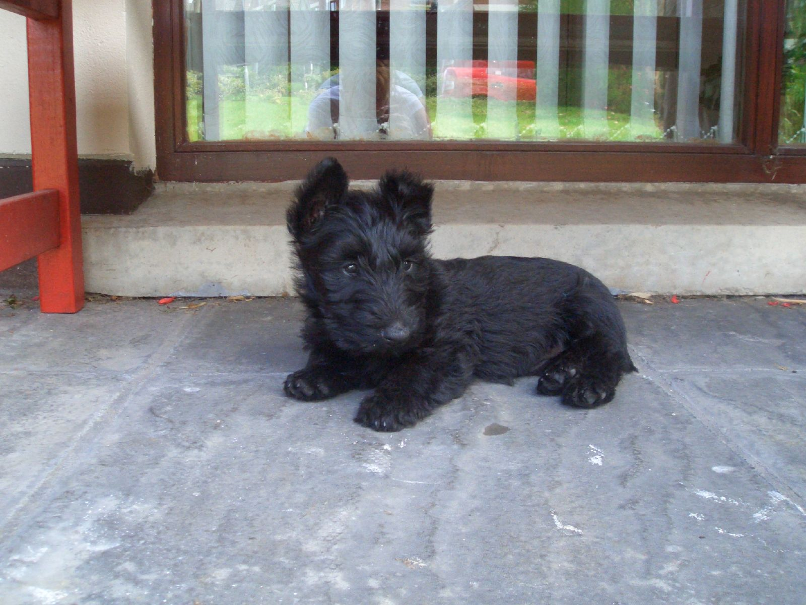 Scottish Terrier PuppyNonchalant Seány